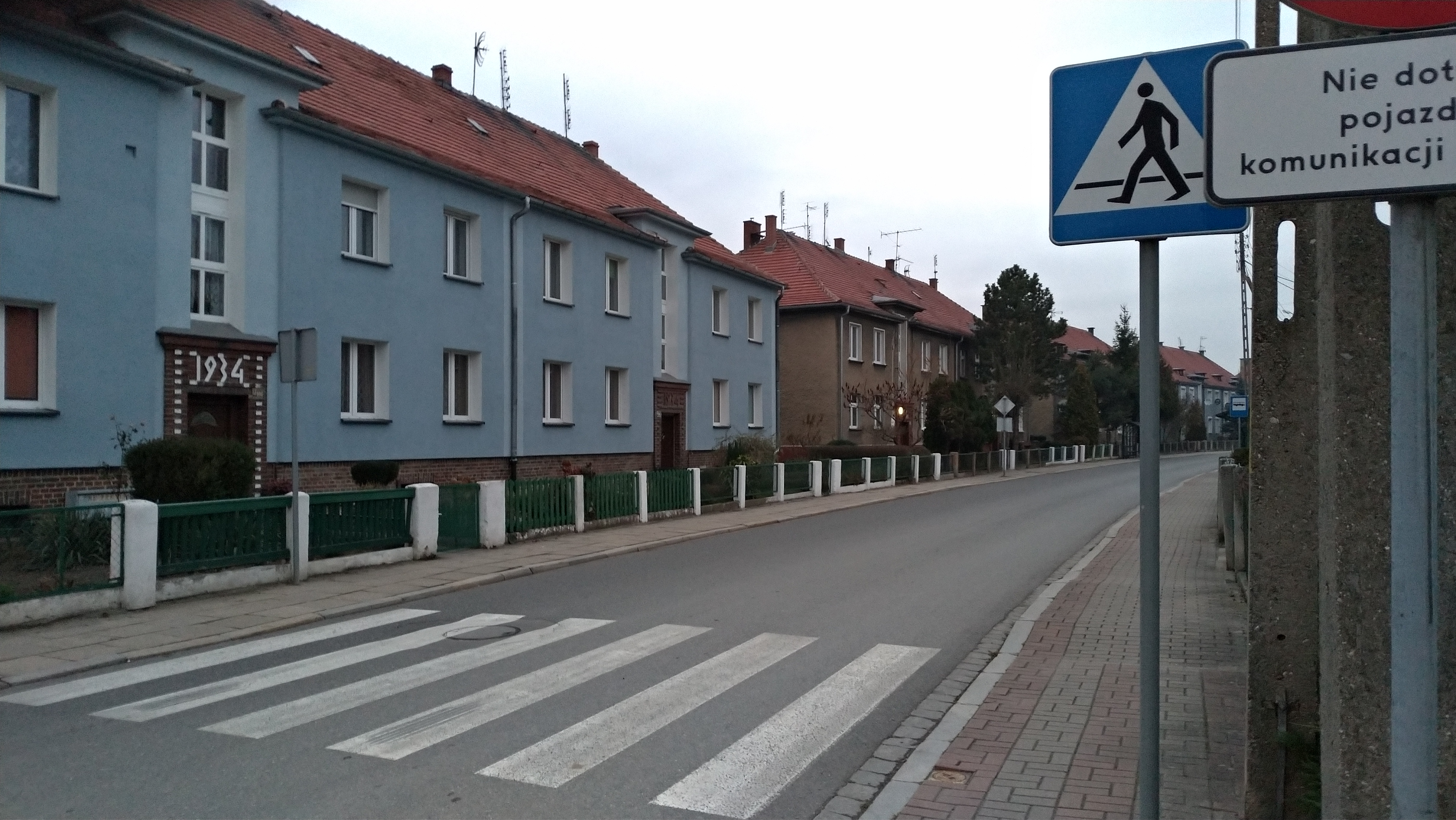 Grunwaldzka Street in Prudnik.